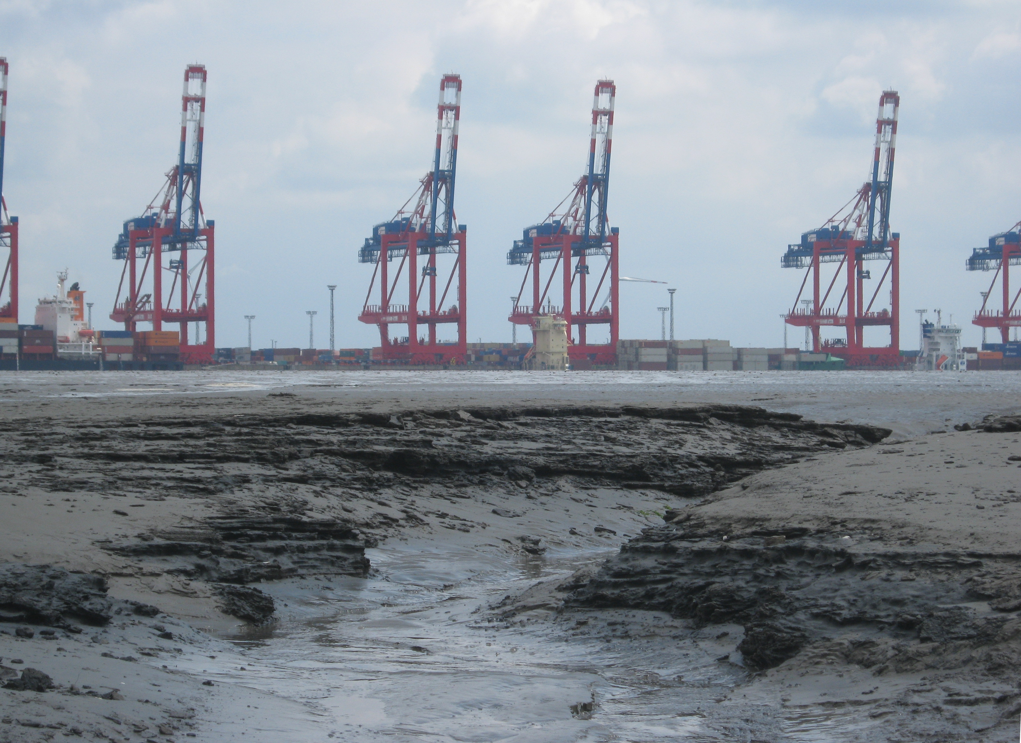 Bremerhaven Watt